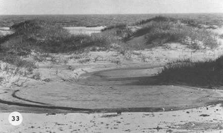 Beach erosion on North Carolina due to Tropical Storm Doria in August of 1971